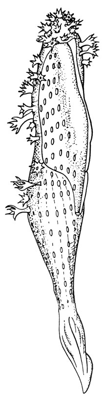 Hahn, G. & Pflug, H. D. reconstruction of Ediacaran organism Ausia as pennatulacean from the Veretillidae family.